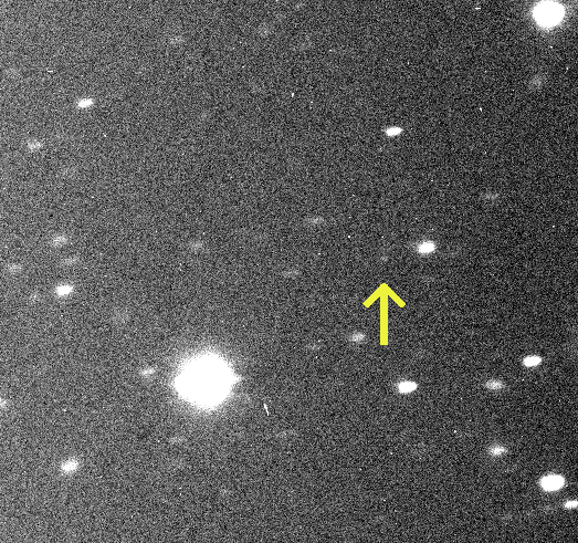 The two discovery images of S/2002 J1 showing the motion of the satellite relative to background stars and galaxies.